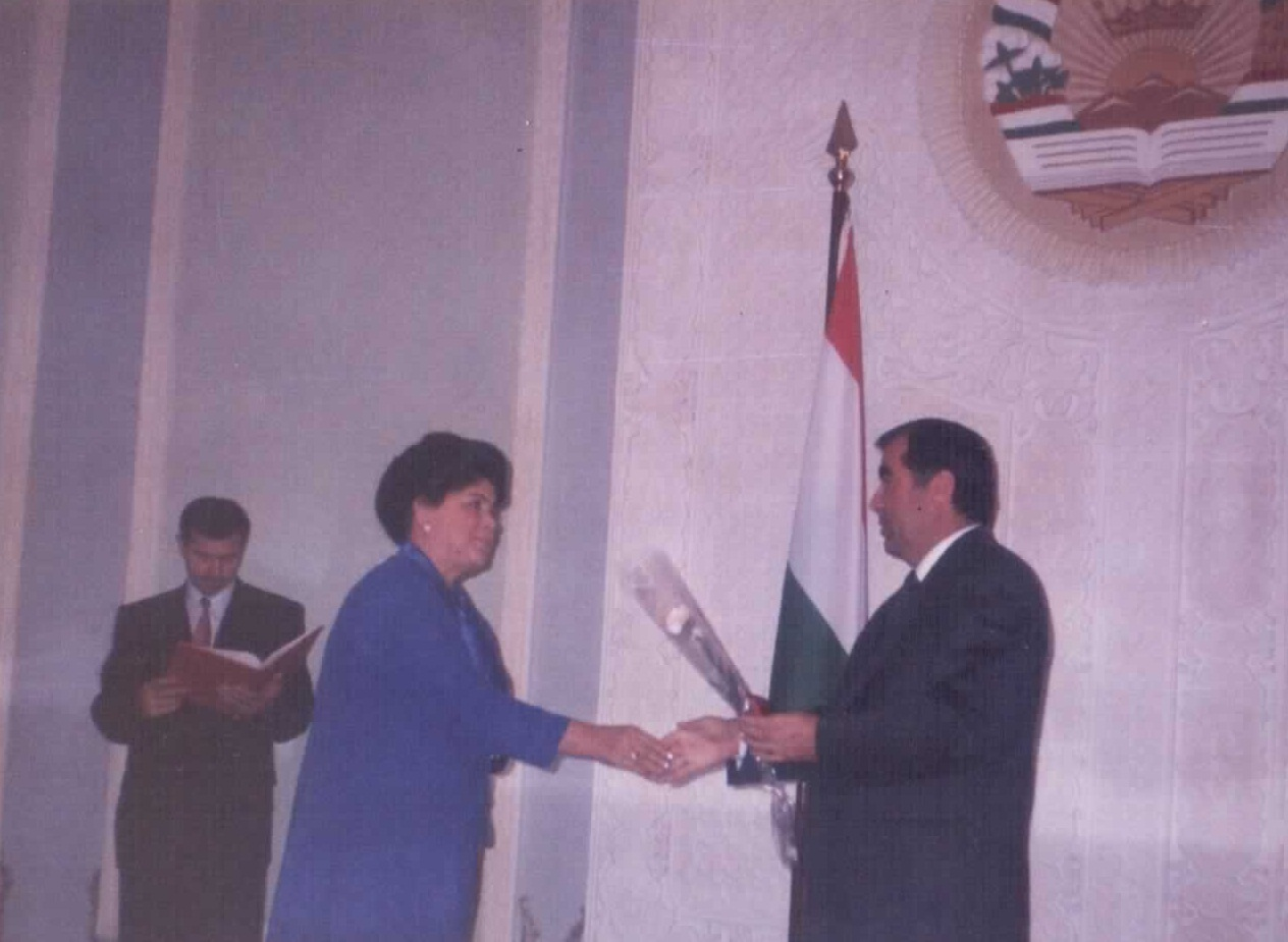 Награждение орденом Шараф.1999 год